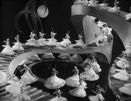 Frame from public domain trailer for 1933 Warner Bros. film Gold Diggers of 1933 showing musical number "Waltz of the Shadows"